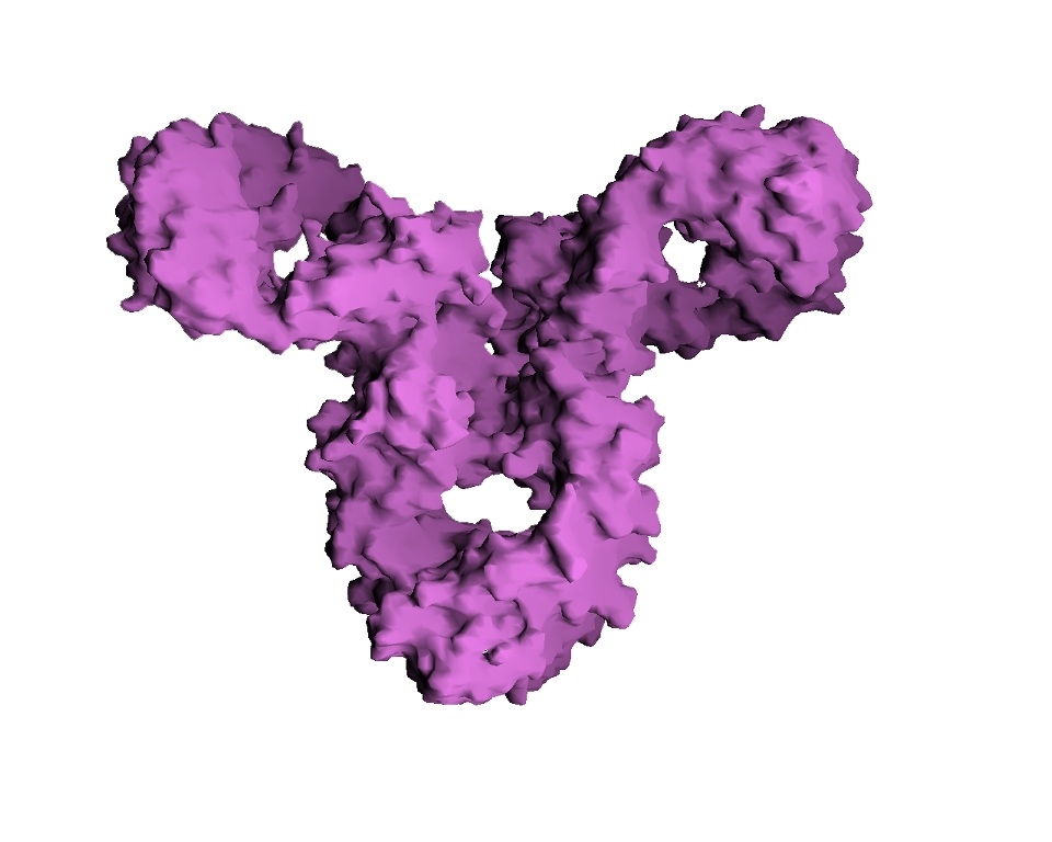 Molecular surface of Immunoglobulin (IgG)Molecular surface of Immunoglobulin (IgG). Water-accessible surface as shown by Grasp (Anthony Nicholls, Kim Sharp and Barry Honig, PROTEINS, Structure, Function and Genetics, Vol. 11, No. 4, 1991, pg. 281ff). Structures are from the Protein Data Bank.